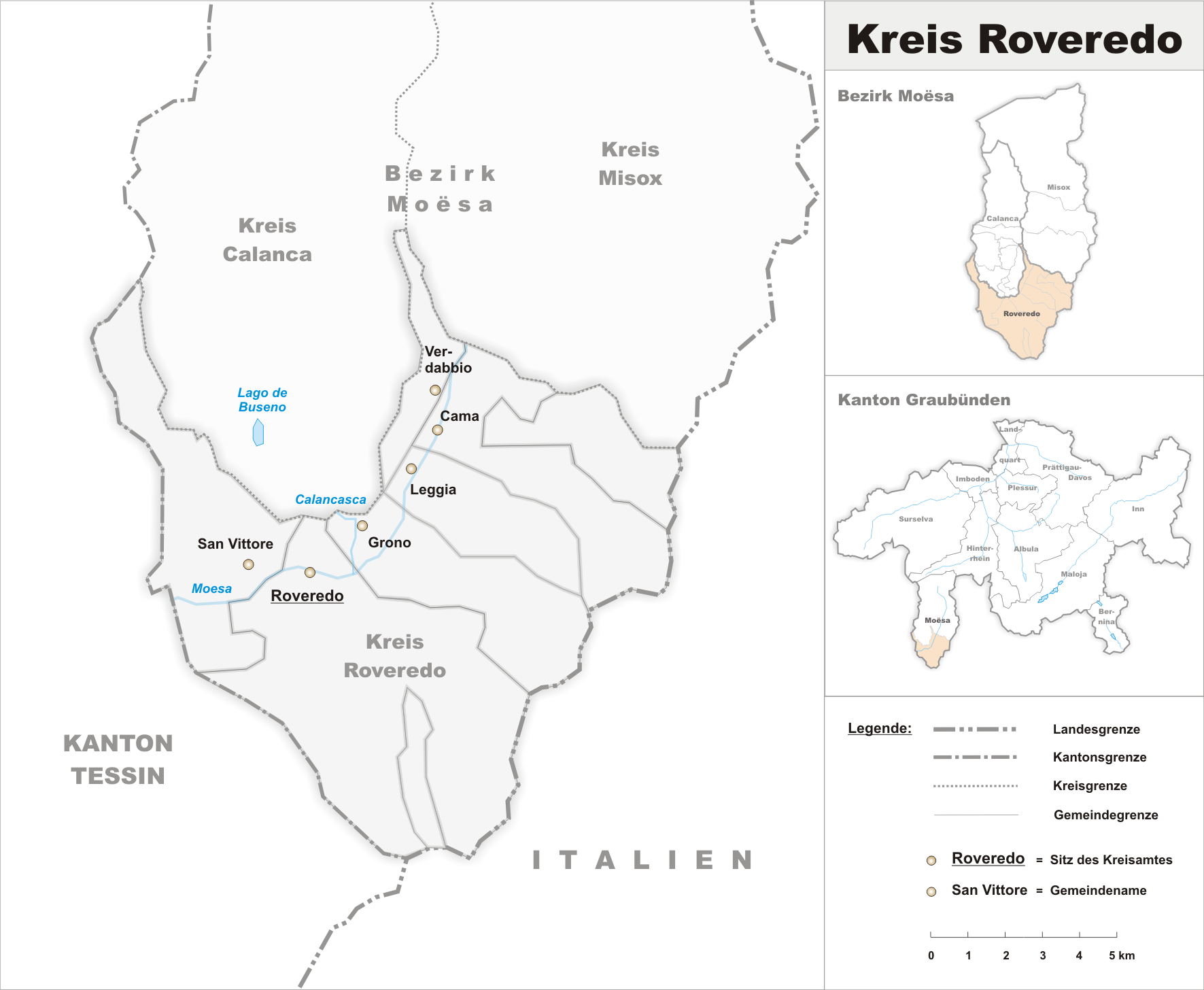 Municipalities in the circle of Roveredo